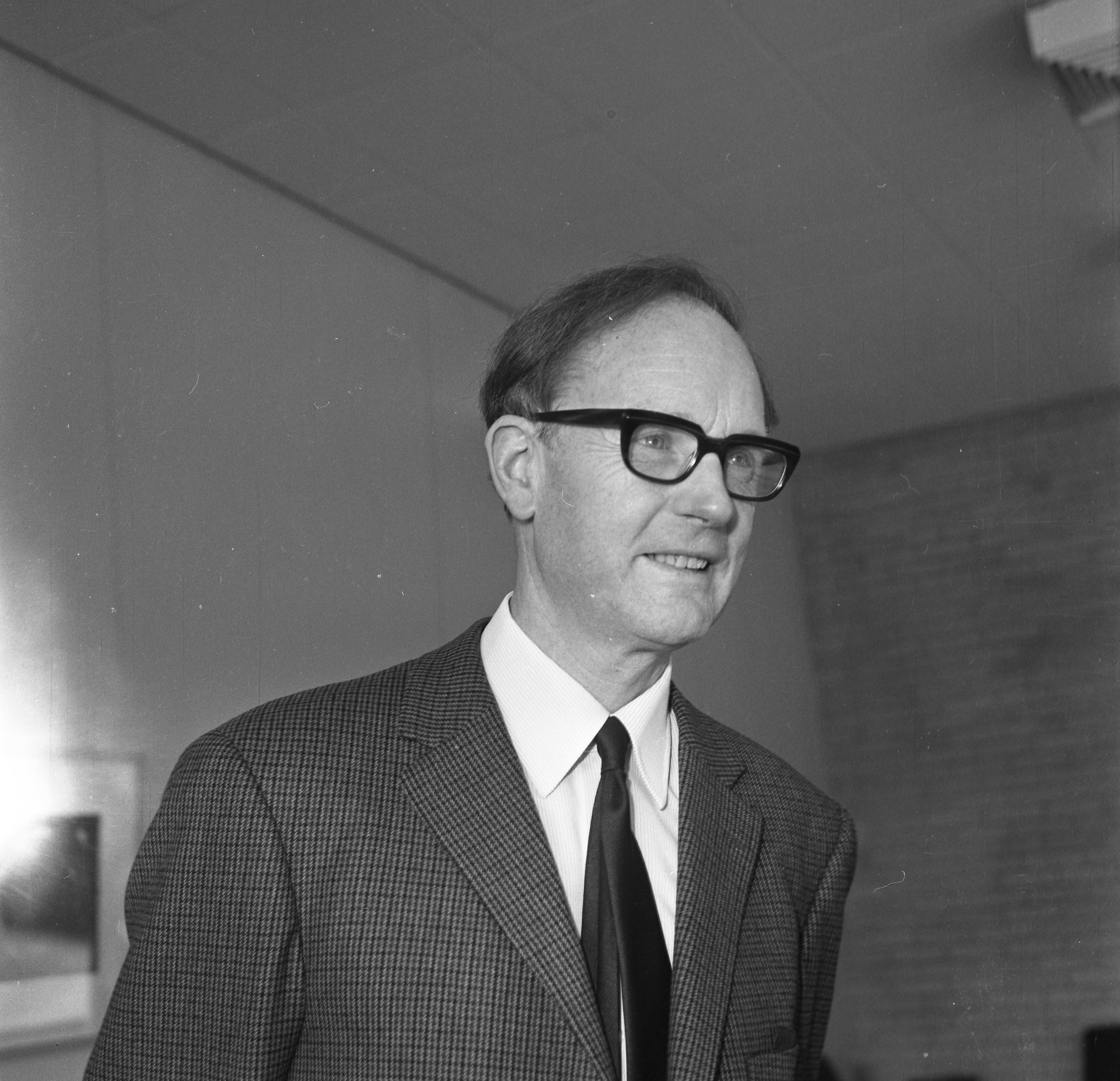 Format: Negativ 120 film Dato / Date: 196 Fotograf / Photographer: Eirik Sundvor (1902 - 1992) Sted / Place: Bergen, Hordaland Wikipedia: Ivar Benum (1913 - 1993) Wikipedia: Bergen lærerhøgskole Eier / Owner Institution: Trondheim byarkiv, The Municipal Archives of Trondheim Arkivreferanse / Archive reference: Tor.H43.Bxx.F14985